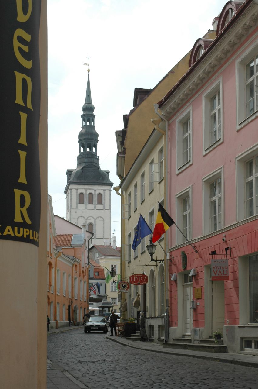 Embassy of Belgium in Tallinn, Estonia